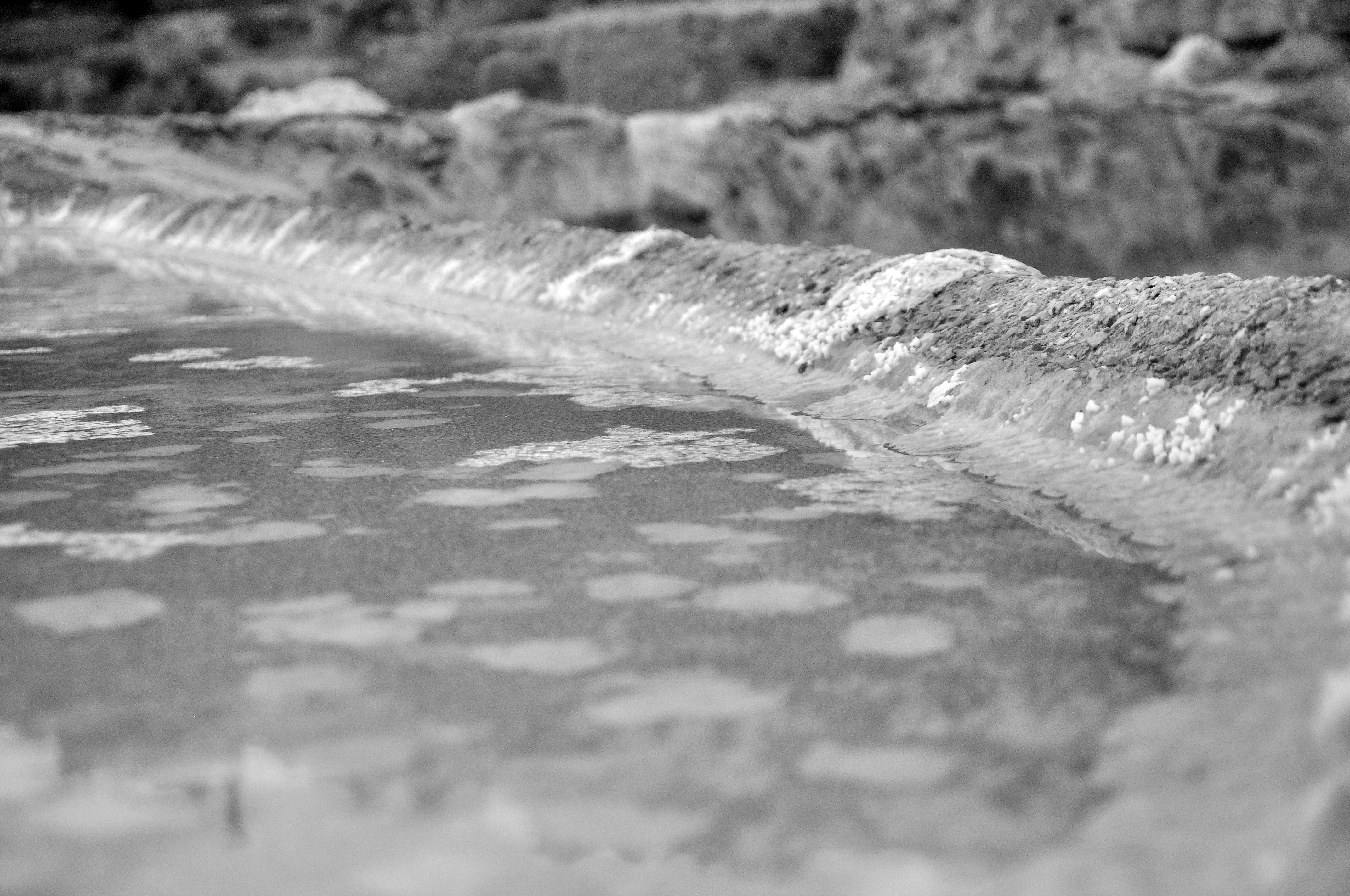 formation de la fleur de sel , qui est la première étape This is an image of "African people at work" from Algeria